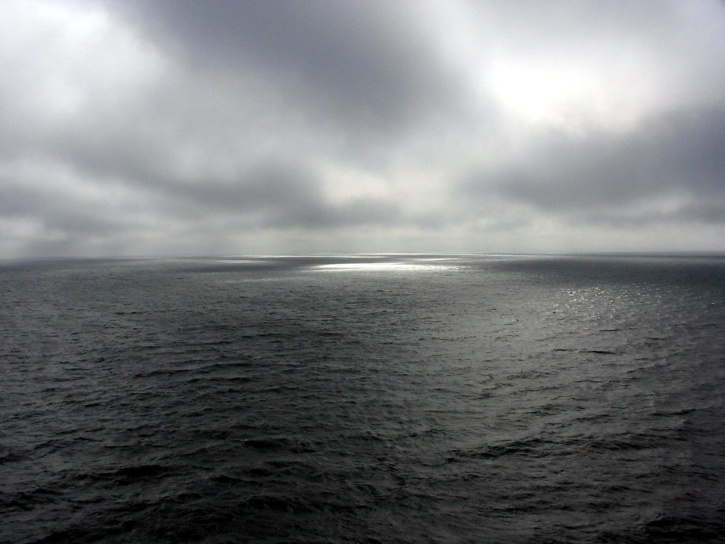 middle of Skagerrak